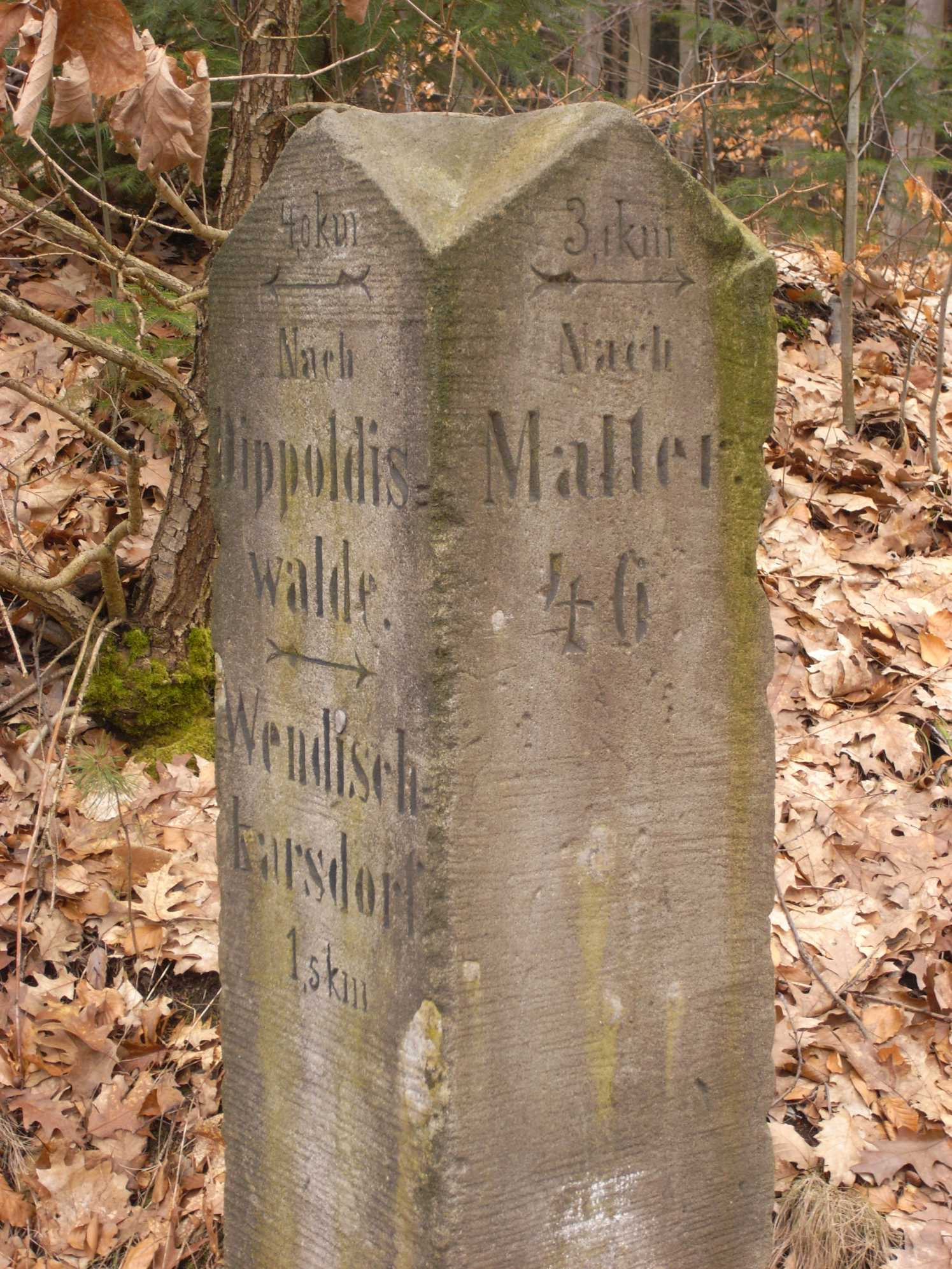 Heath of Dippoldiswalde (Dippoldiswalder Heide), old signpost (sandstone) on the Malter way near Heidemühle